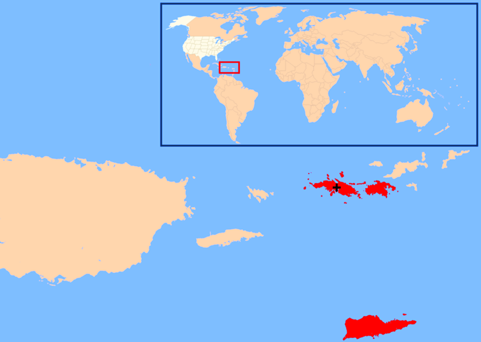 The Catholic Diocese of St. Thomas encompasses all of the United States Virgin Islands.